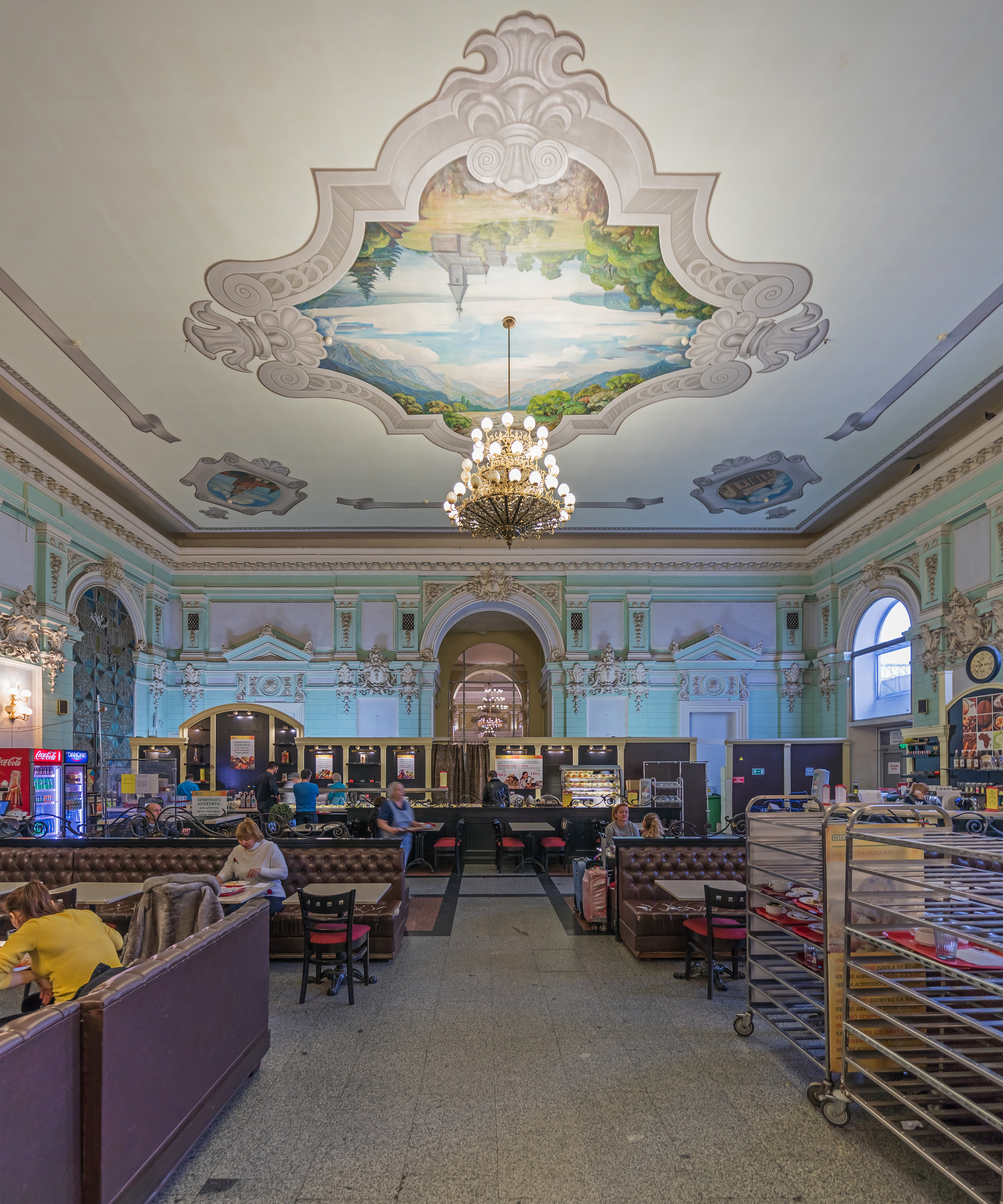 Interior of the old building of Kursky Railway Station in Moscow, Russia